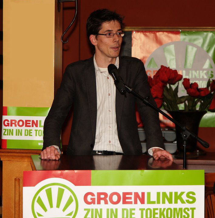 Bas Eickhout #2 on the list of the GreenLeft for the European elections.